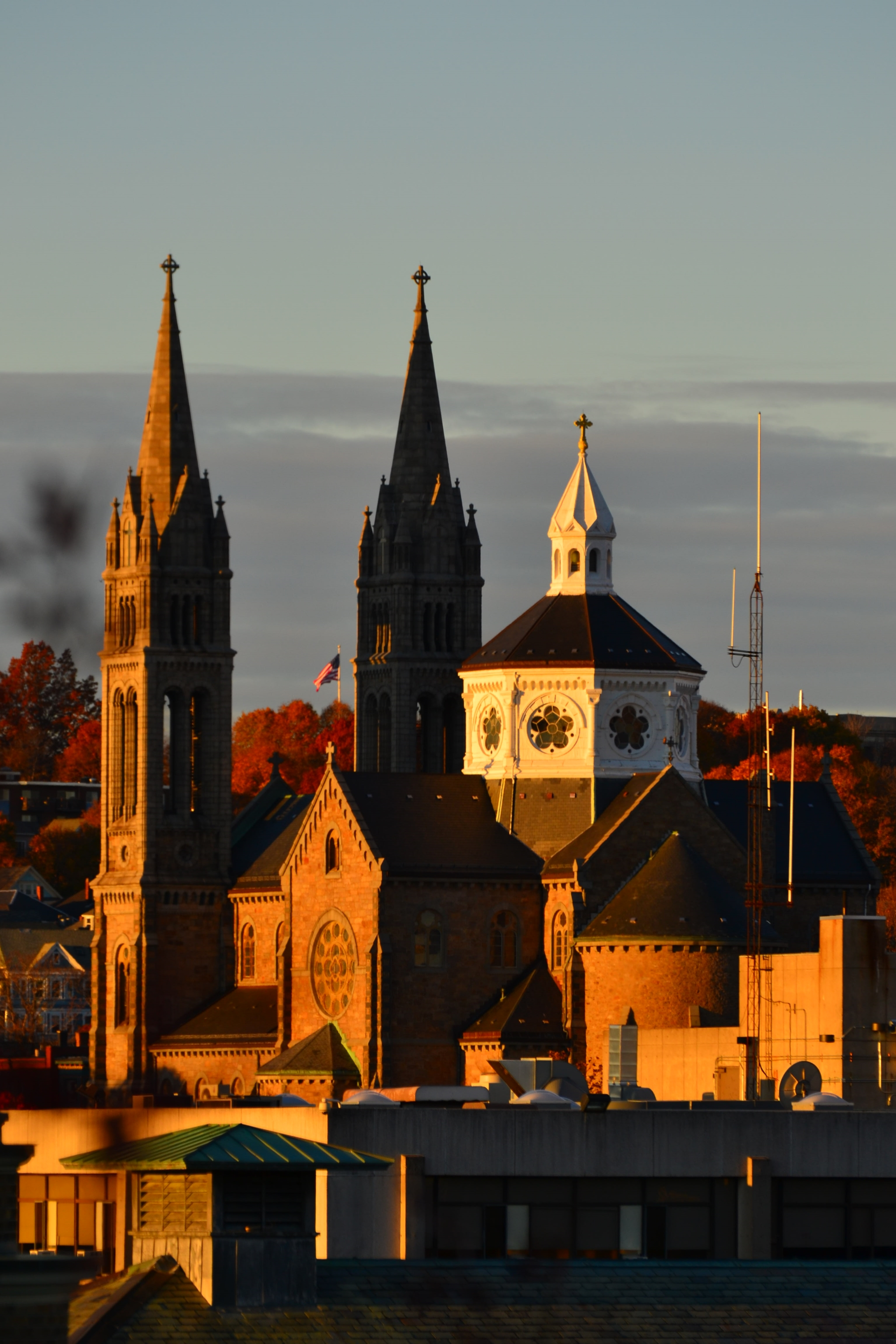 The Basilica and Shrine of Our Lady of Perpetual Help is a Roman Catholic Basilica in Boston, Massachusetts, sometimes known as Mission Church.